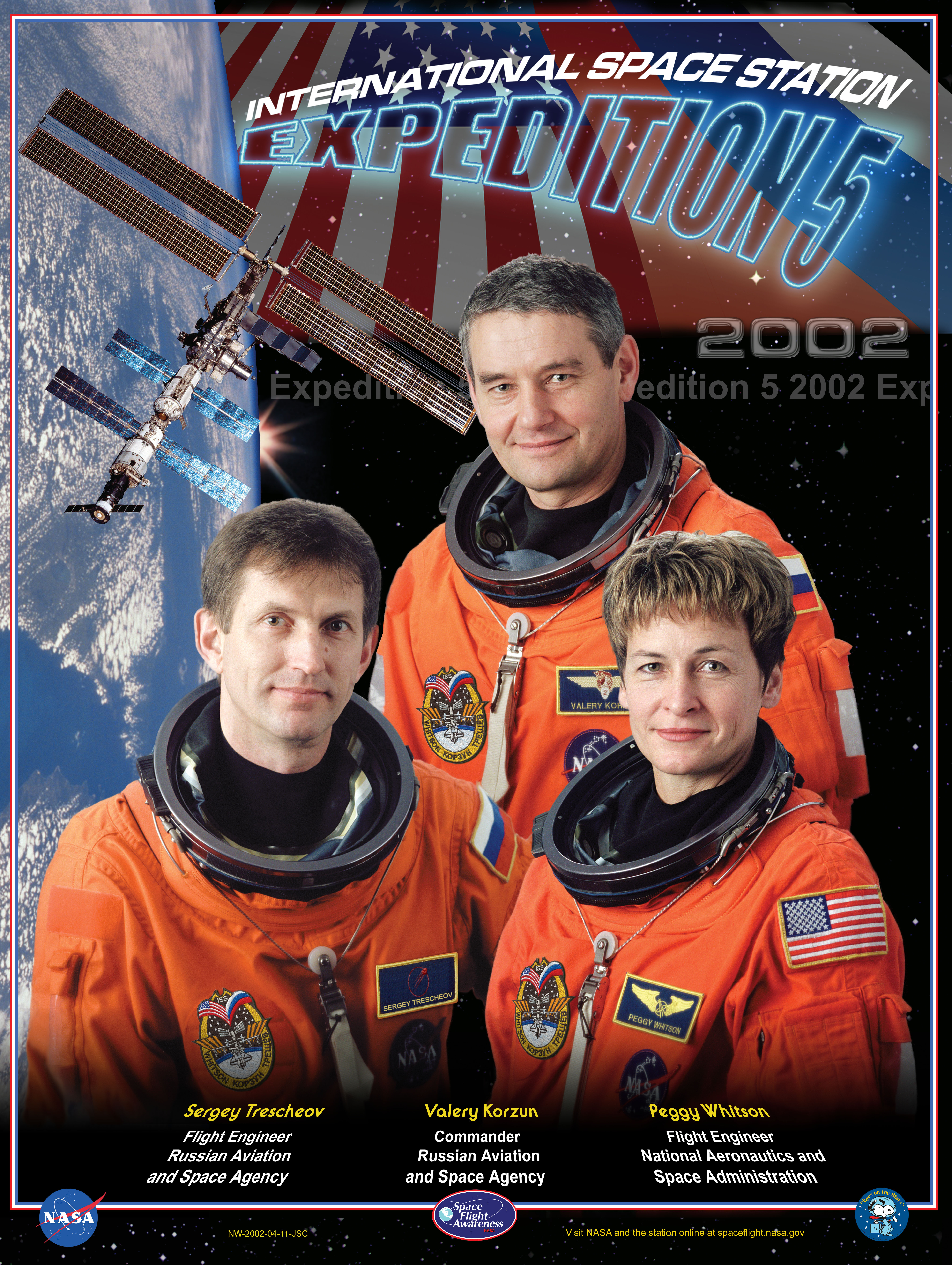 Expedition 5 NASA Space Flight Awareness mission poster